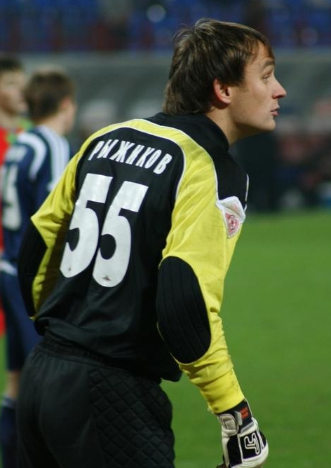 Sergei Ryzhikov as a player of FC Tom